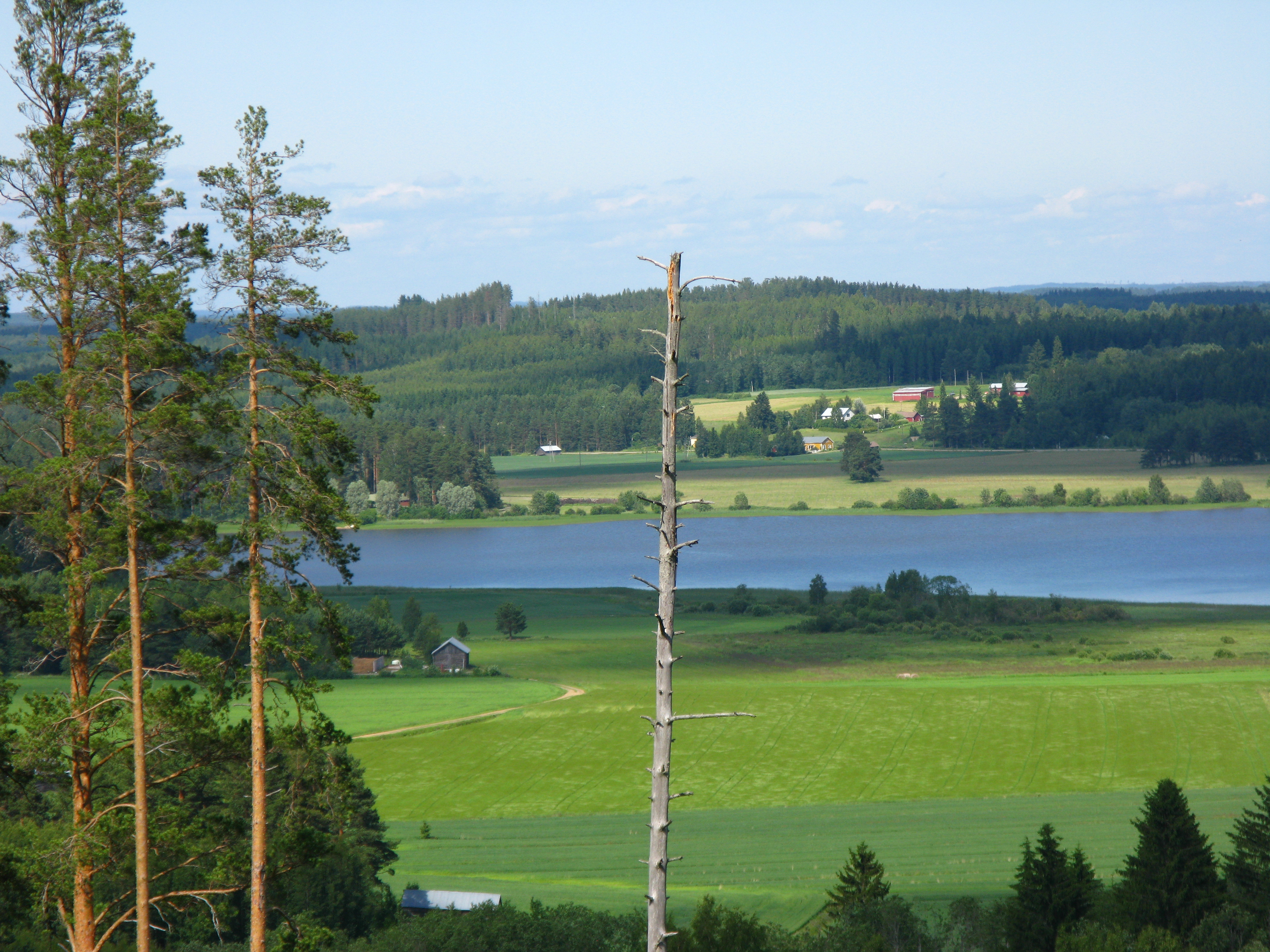 A view towards the North taken from the Vaaranmäki tower located in Saari, Parikkala, Finland. Lake Pieni Rautjärvi on the background.